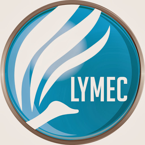 Lymec Logo